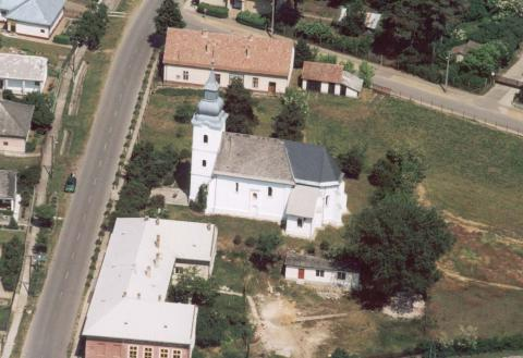 Ófehértó, Hungary, aerialphotography